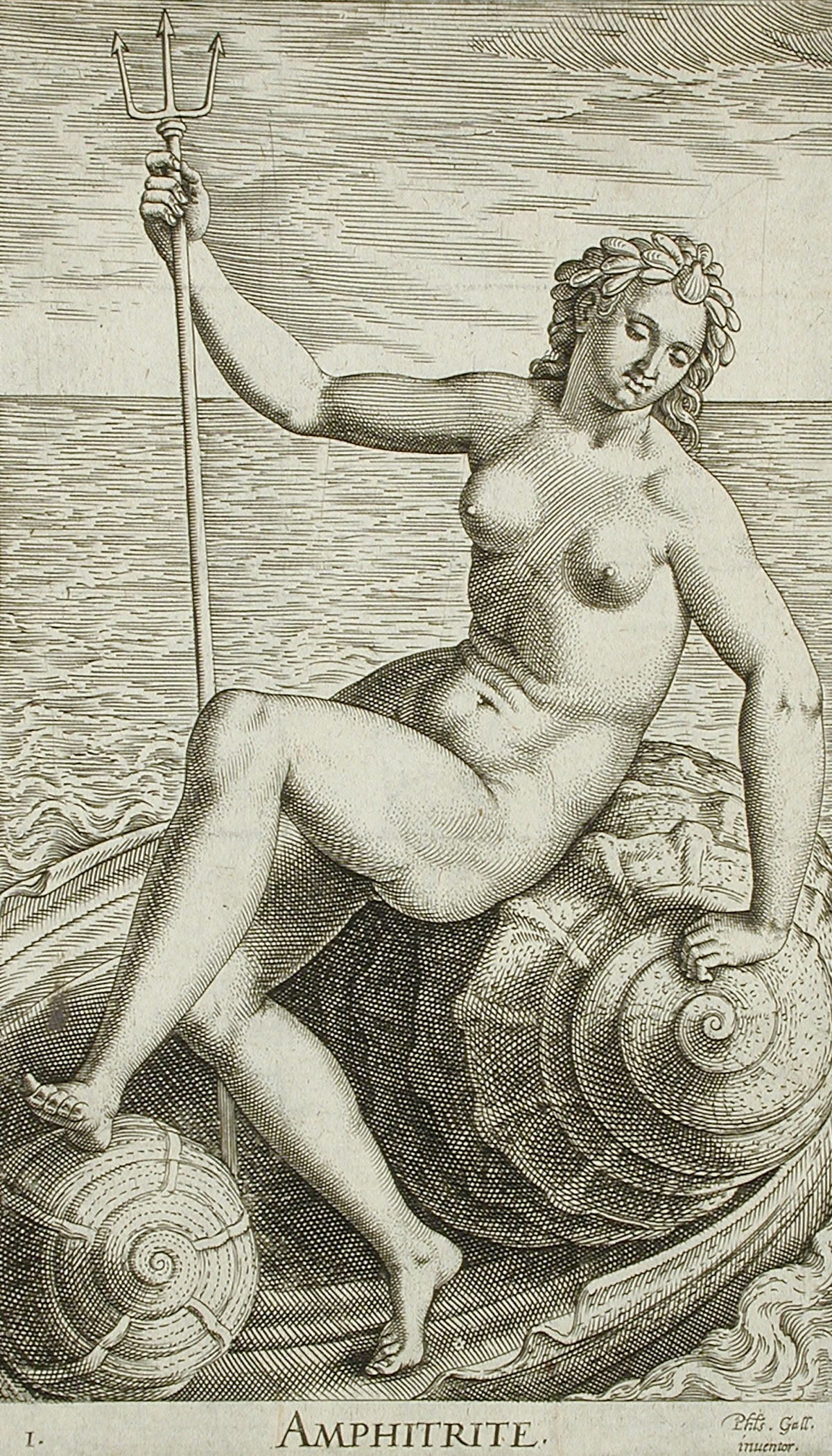 Holland, 1587 Series: Nymphs, pl. 1 Prints; engravings Engraving Mary Stansbury Ruiz Bequest (M.88.91.381b) Prints and Drawings